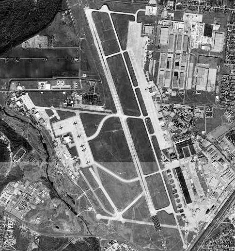 Kelly AFB, TX - 7 Jan 1995 Source: United States Geological Survey digital orthophotoquad via TerraService WebMap Server Kelly Field Historic District in this image is middle right, east of the runways